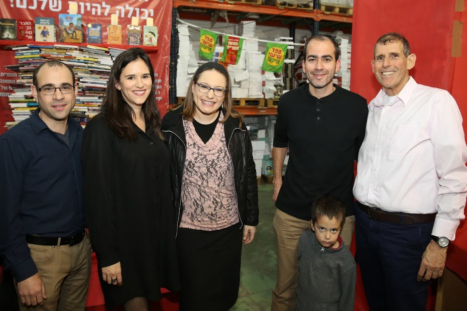 Yedioth Books writers: Dov Eichenwald, Dr. Asael Lubotzky, Sivan Rahav Meir, Emily Amrusi, Amihai Berholtz